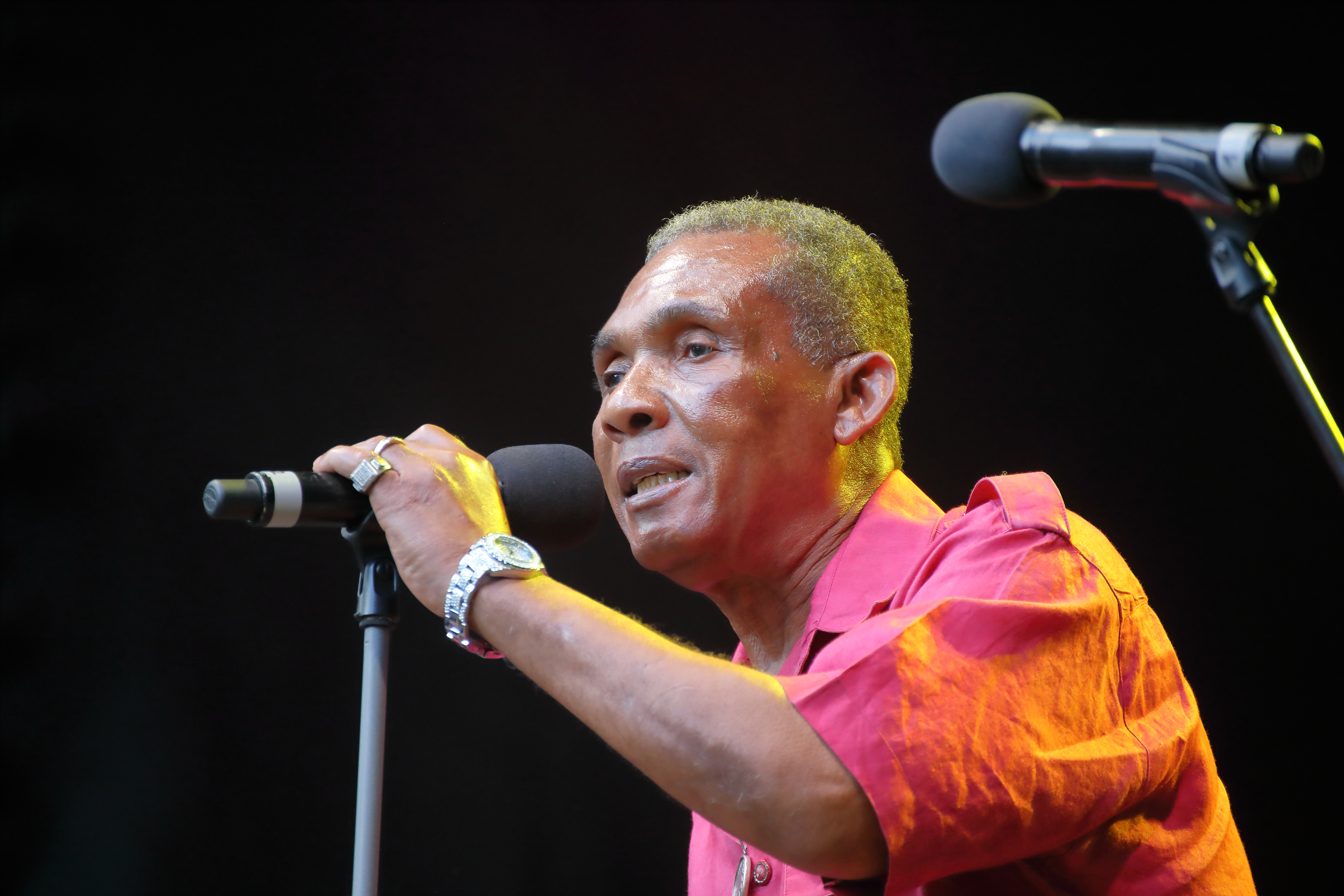 Inna De Yard at Rudolstadt-Festival 2019.